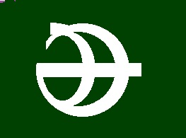 Flag of Miyota Nagano